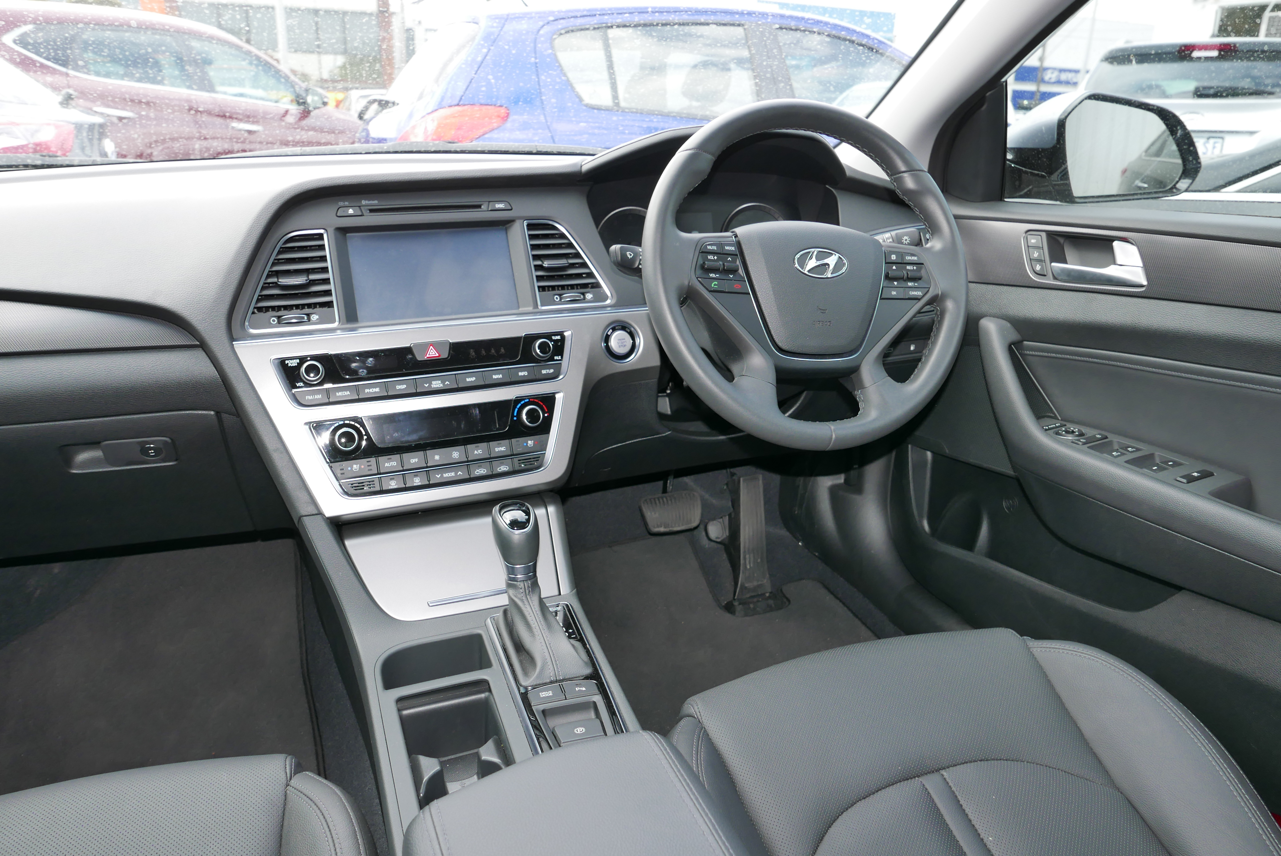 2014 Hyundai Sonata (LF MY15) Premium sedan. Despite the date discrepancy between the description and the vehicle registration information below, the build date on the vehicle is November 2014. Photographed at Yarra Hyundai, Abbotsford, Victoria, Australia. Vehicle registration enquiry resultsJurisdictionVictoriaRegistrationADR489Chassis codeKMHE341BMFA084864Engine codeG4KHEA564615Compliance date2015-02Year of manufacture2015